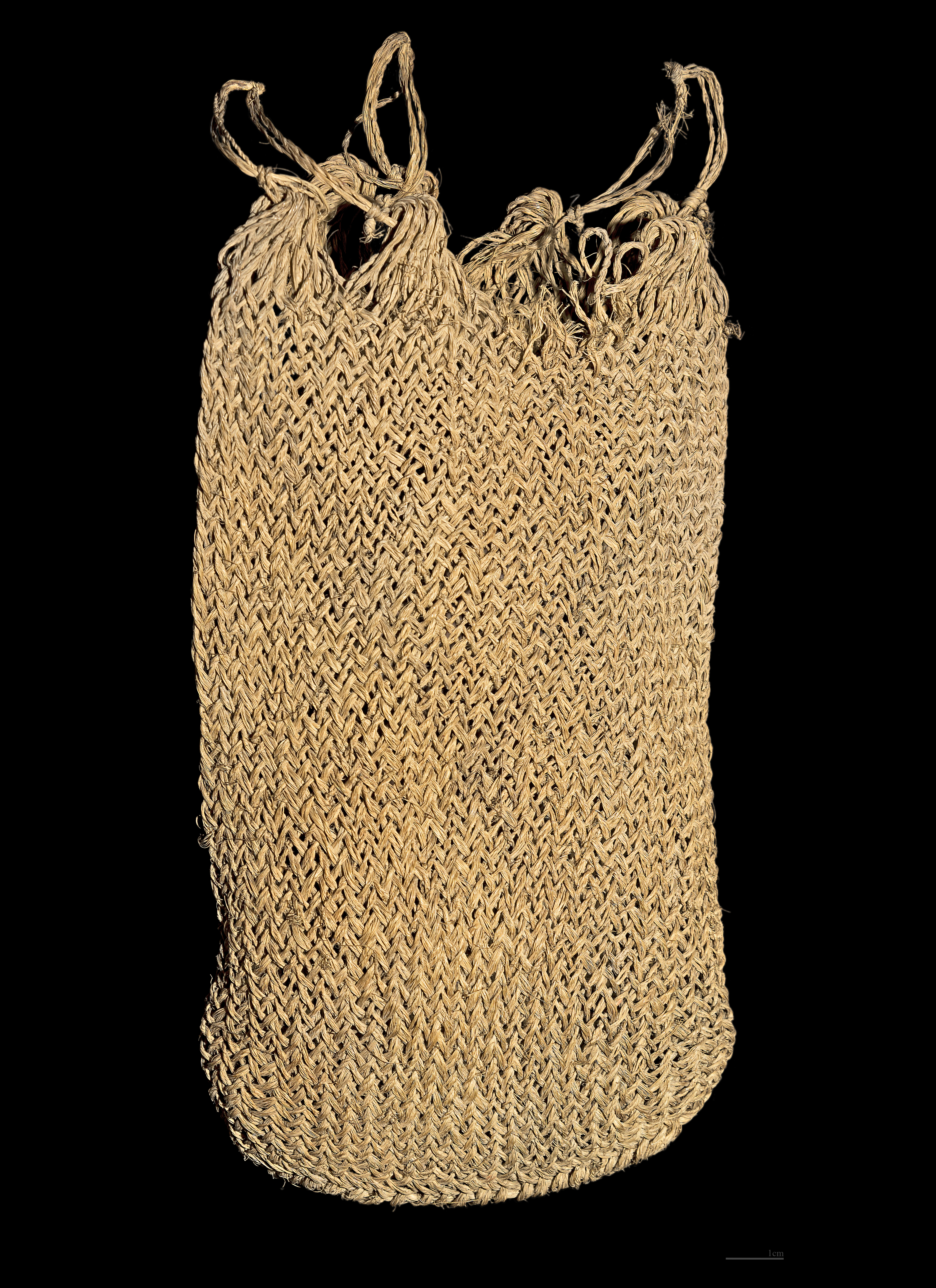 Areca nut Betel bag. Oblong, in the upper part the handles together the two fibers. The bag has a slot on the side. Population : New Guinea Collector and collection: Théophile Savès Date of collection: the nineteenth century (4th Quarter) Materials: Natural fibers Size : 18x10x2 cm